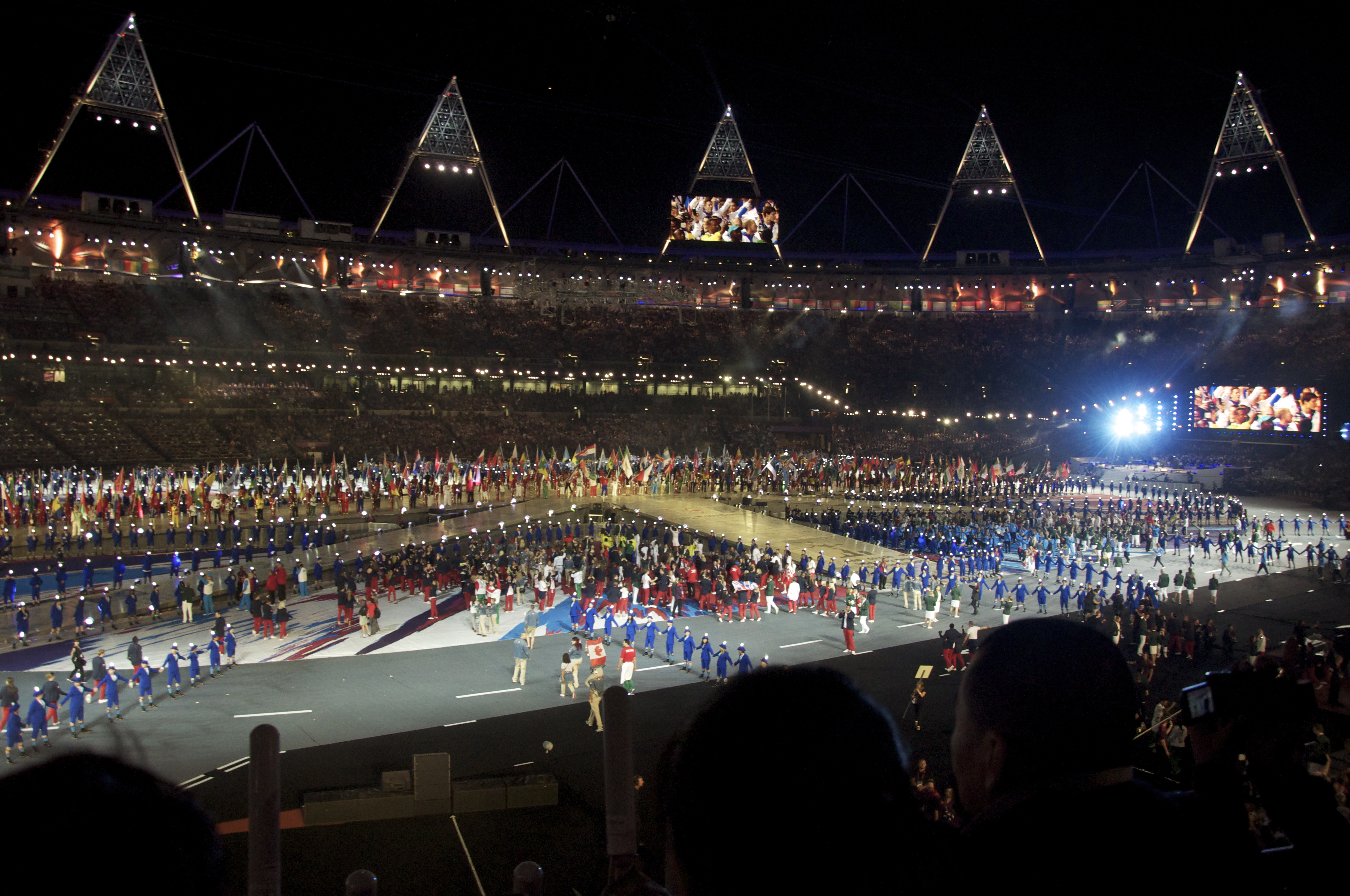 The athletes of London 2012 enter the stadium during the closing ceremony